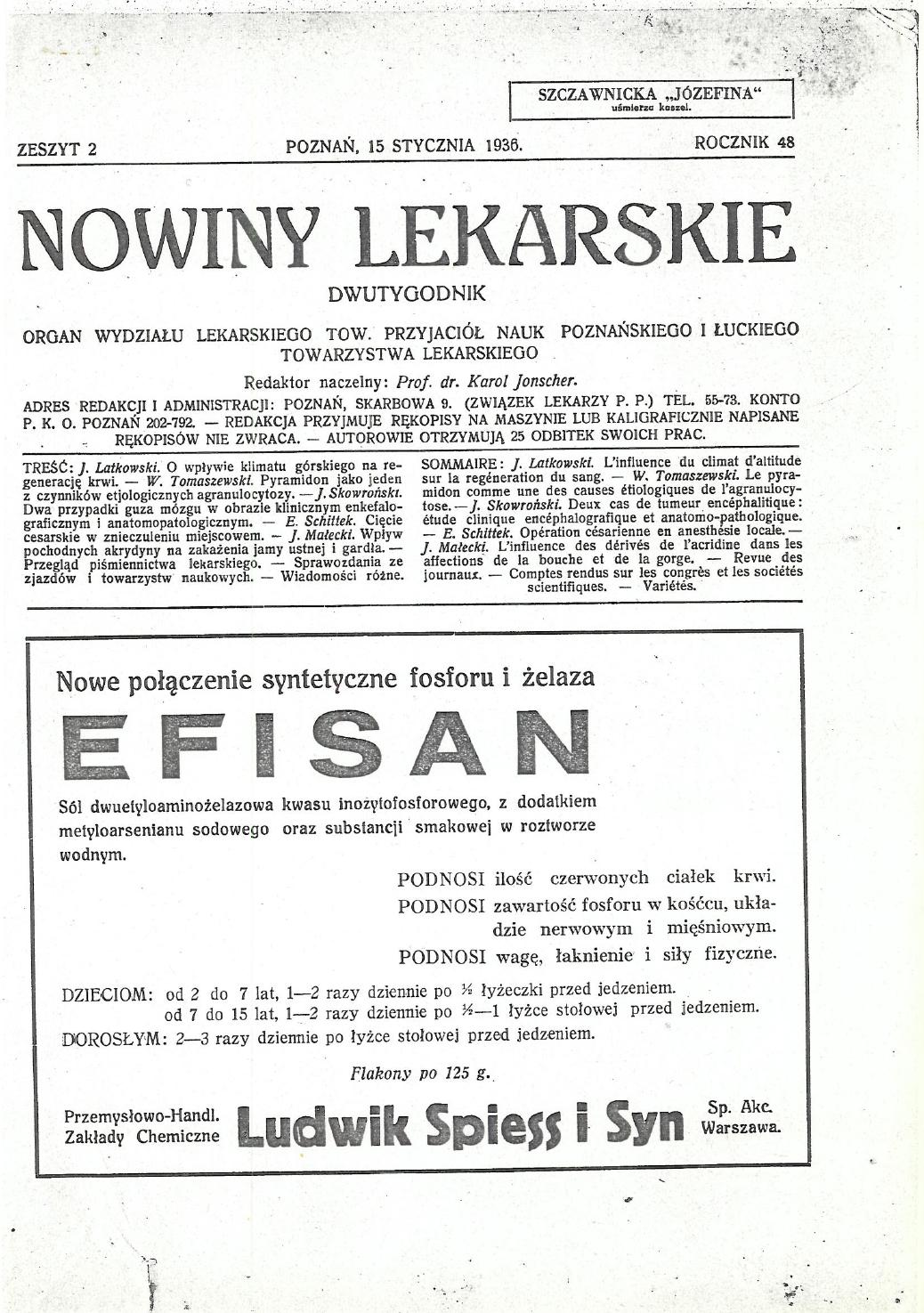 Scanned page from the "Nowiny lekarskie" gazette (Polish Medical Newspaper)